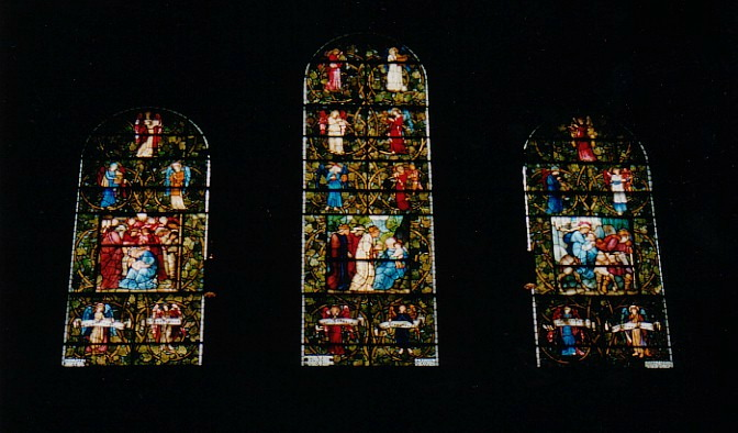 Nativity windows at Trinity Church, Boston, designed by Edward Burne-Jones and executed by William Morris, 1882